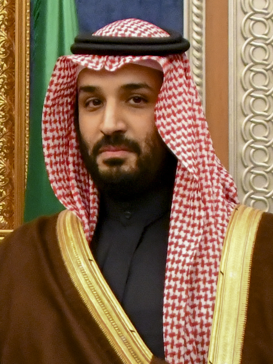 U.S. Secretary of State Michael R. Pompeo meets with Saudi Crown Prince Mohammed bin Salman in Riyadh, Saudi Arabia, on January 14, 2019. [State Department photo by Ron Przysucha/Public Domain]